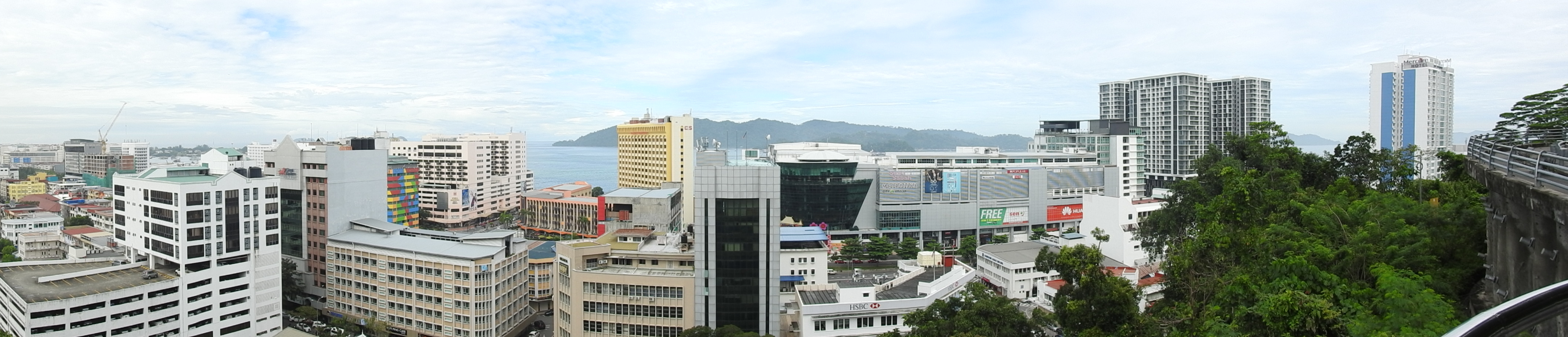 Kota Kinabalu centre